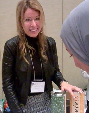 Isabelle Huot photographed in Laval, Québec, Canada.